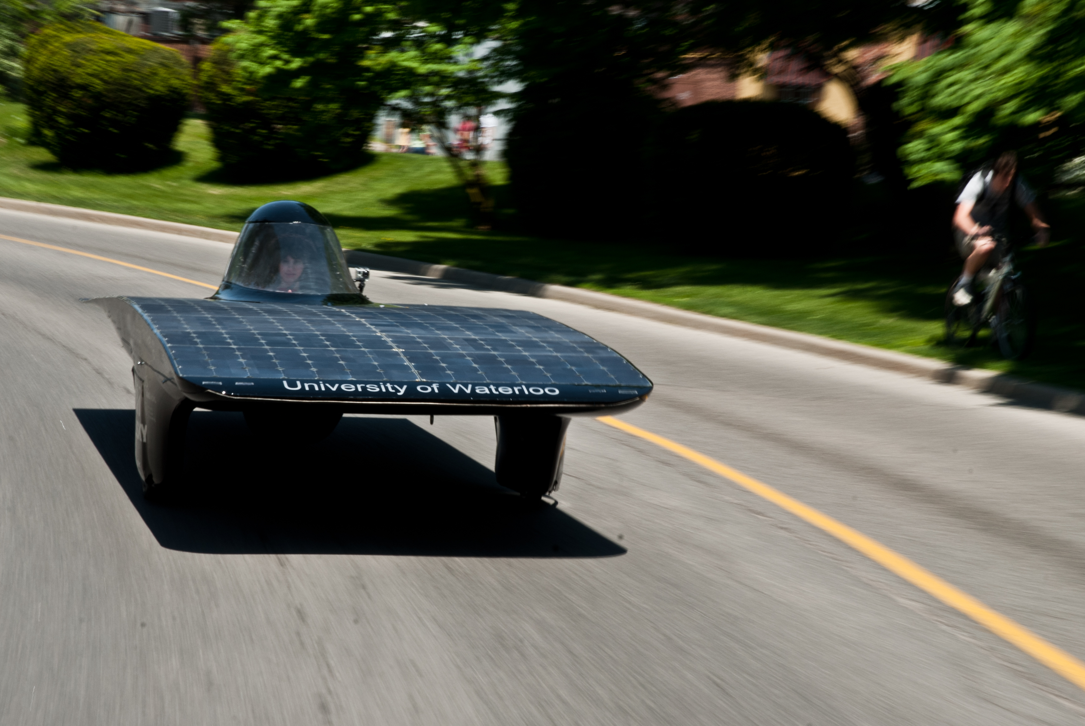 The University of Waterloo's Midnight Sun Solar Car team takes a test lap during the unveiling of Midnight Sun X, the team's 10th vehicle.